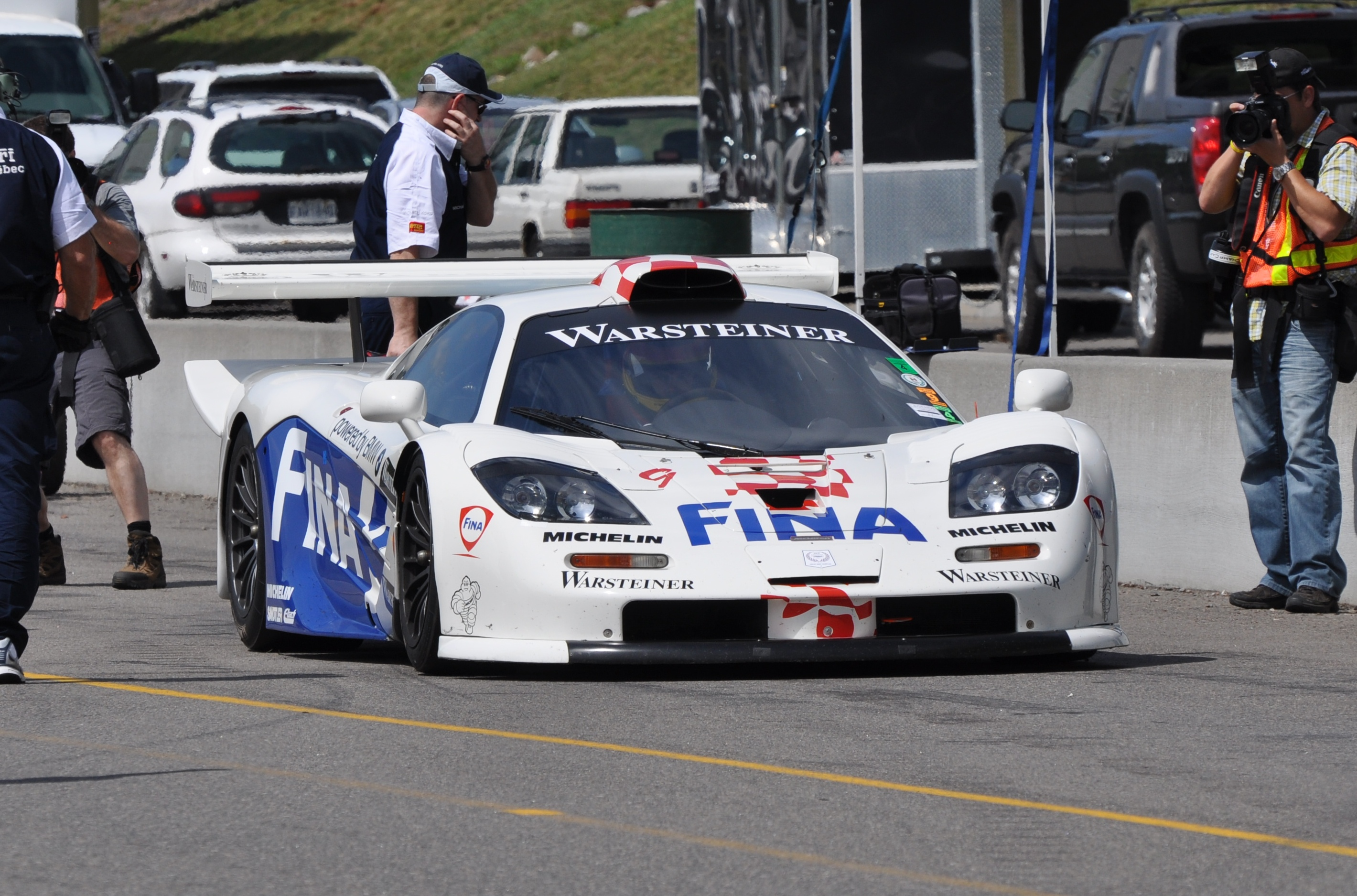 Jacques Villeneuve waits at the wheel of a McLaren F1 GTR racing car, in pit road at Circuit Mont-Tremblant during the 2010 Legends of Motorsport meeting.